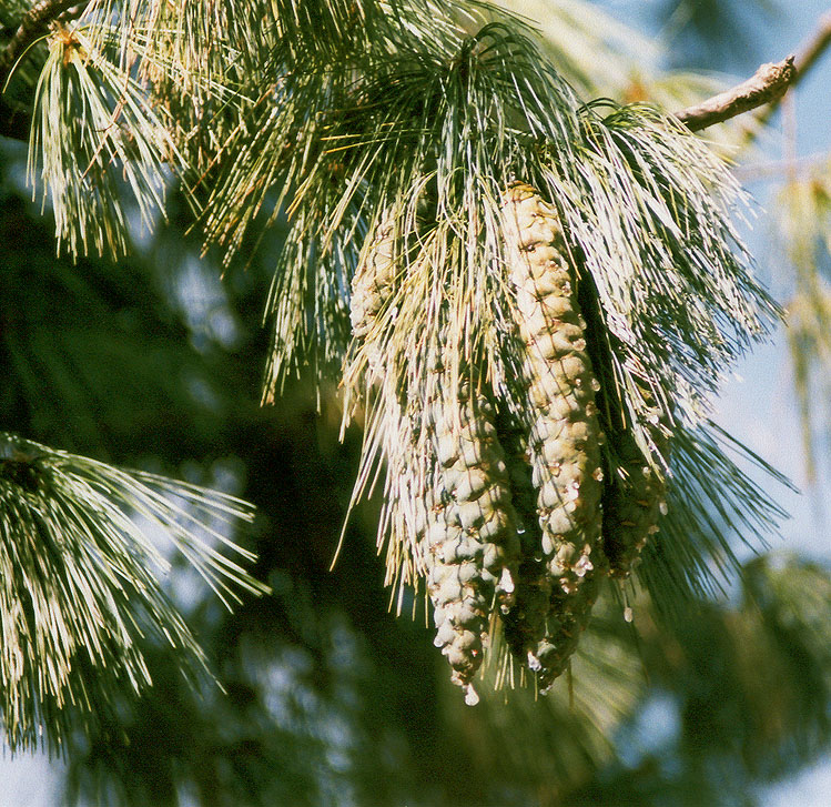 Young cones of Pinus × schwerinii (hybrid Pinus wallichiana × Pinus strobus), cultivated in Wrocław, Poland.